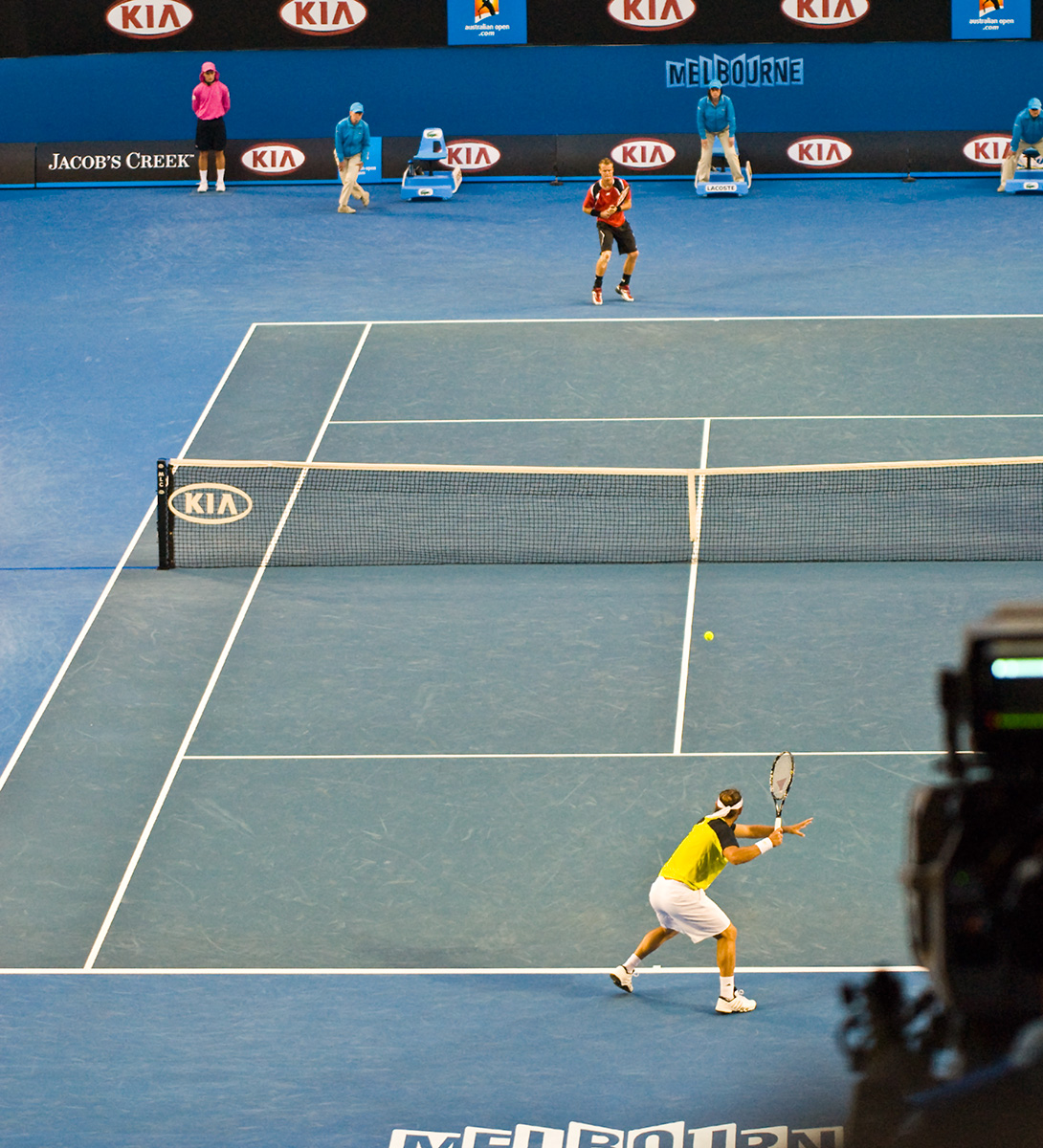 Marcos Baghdatis vs Lleyton Hewitt